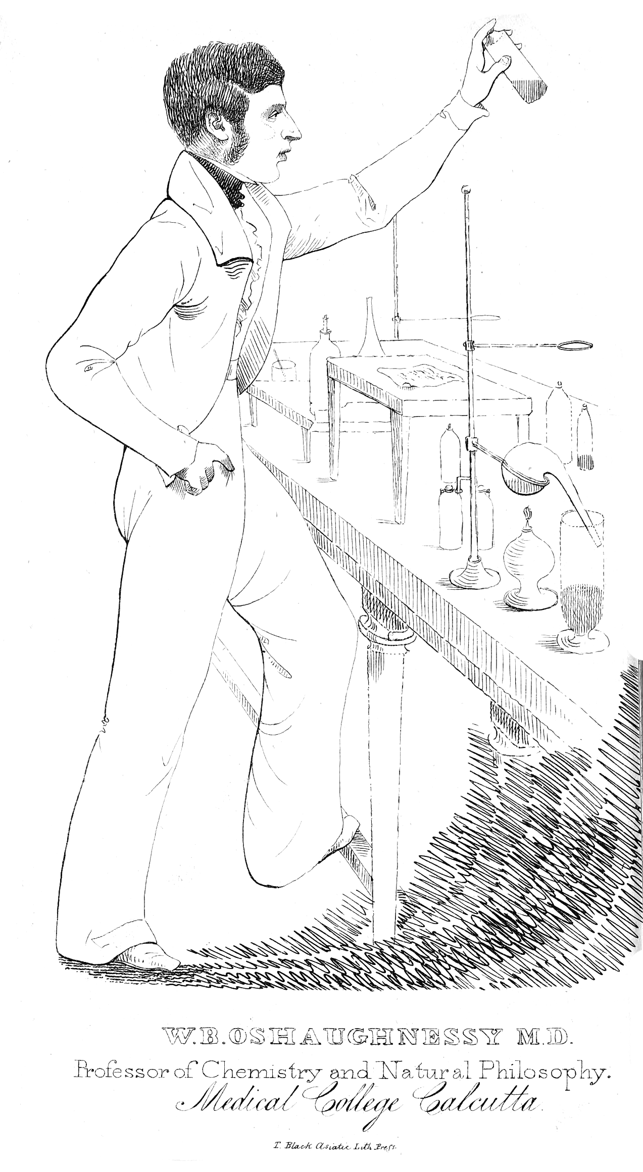 William Brooke O'Shaughnessy MD FRS (October 1809, Limerick, Ireland – 10 January 1889, Southsea, England)